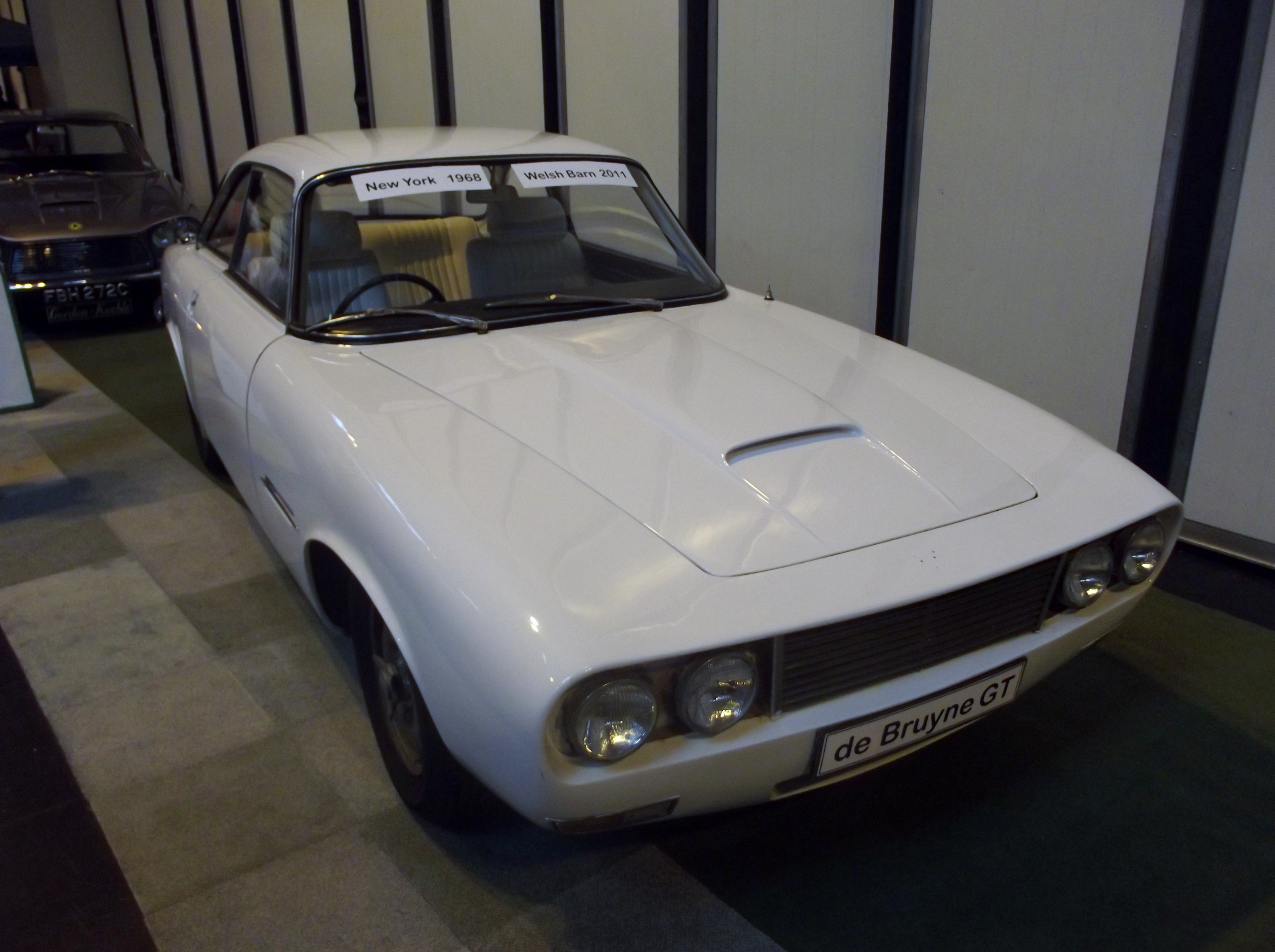 More Tomorrow